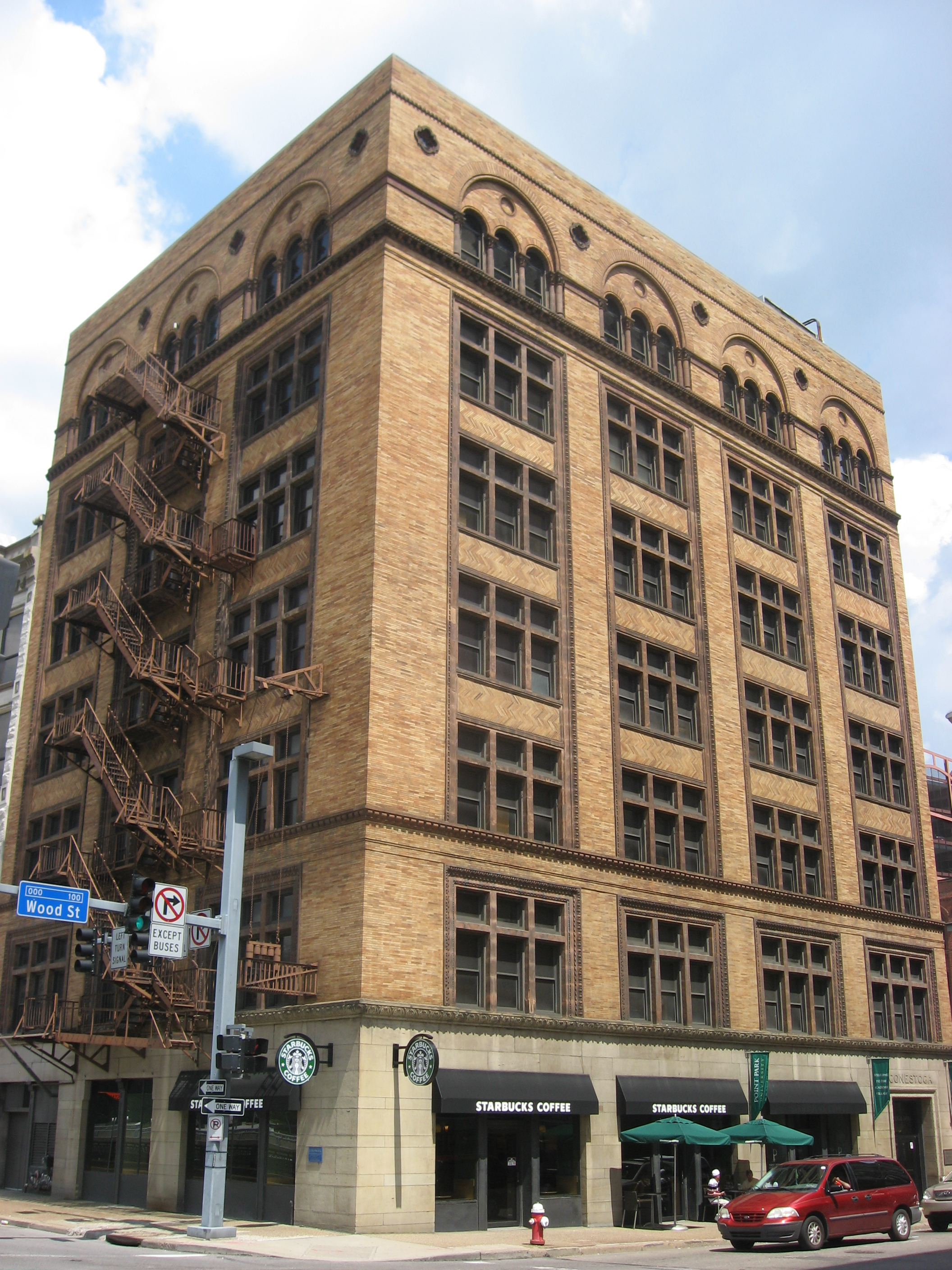 The Conestoga Building, located at 1 Wood Street on the Monongahela River shoreline of downtown Pittsburgh, Pennsylvania, United States. Built in 1892, this building is part of the Firstside Historic District, which is listed on the National Register of Historic Places.